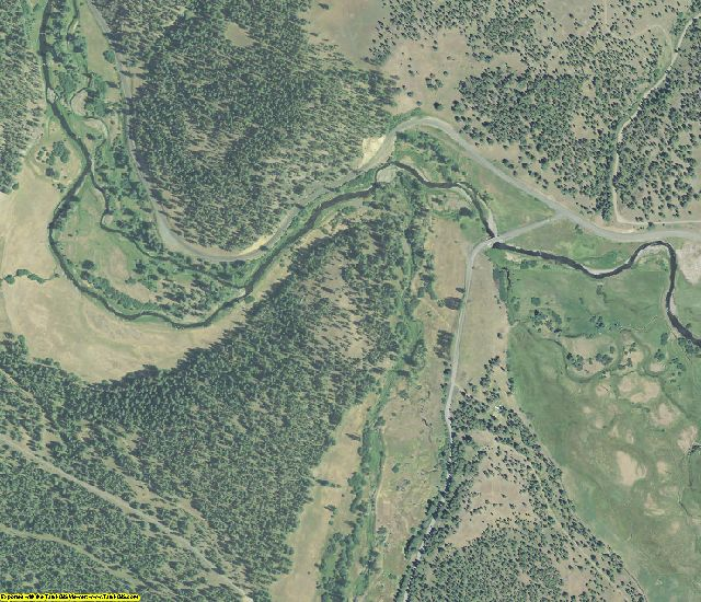 An aerial view of somewhere in Grant County, Oregon, USA.